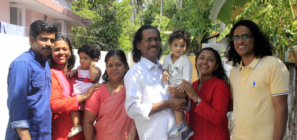 P.K.GOPI with his family at home NANMA in Malaparamba, Kozhikode